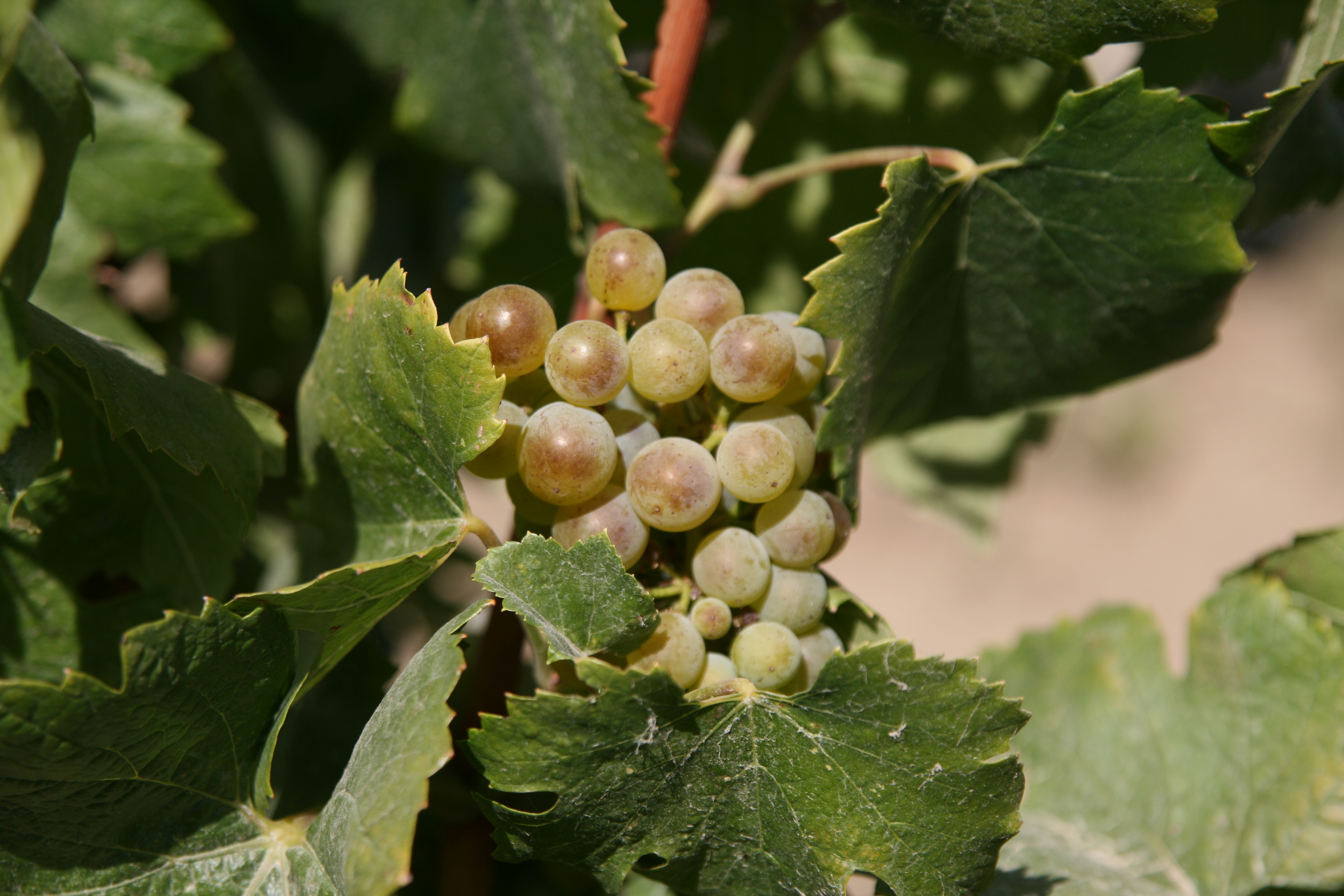 Riesling grapes at Bonair Winery, Yakima River Valley in Washington state